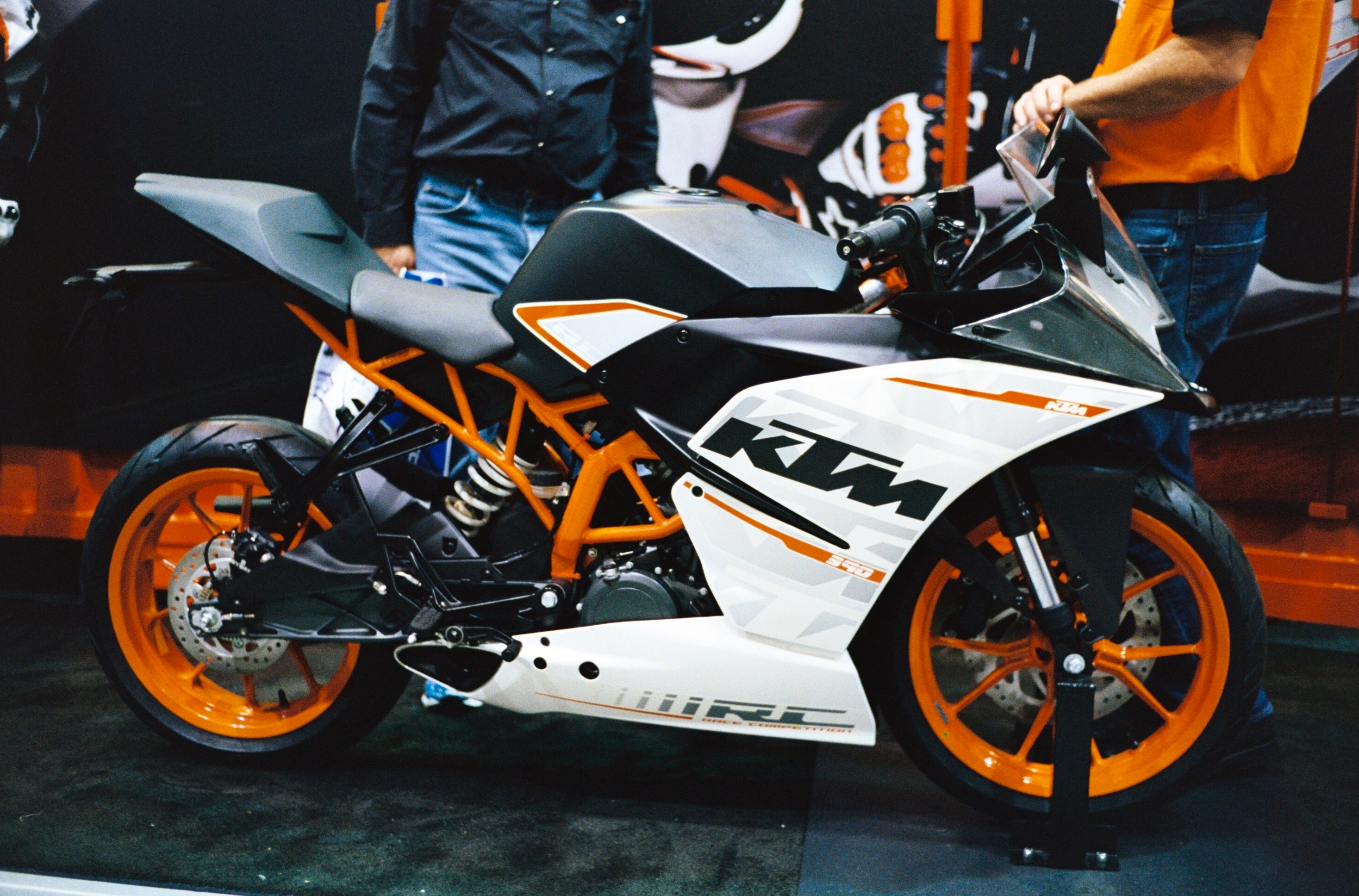 2015 KTM RC390 at the 2014–2015 Seattle International Motorcycle Show in the Washington State Convention Center